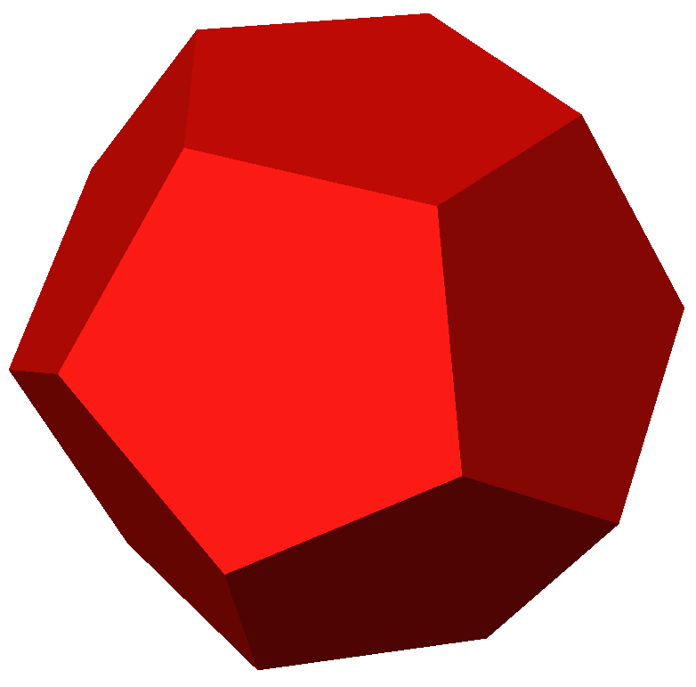 Transition Dodecahedron to Icosahedron 1of5